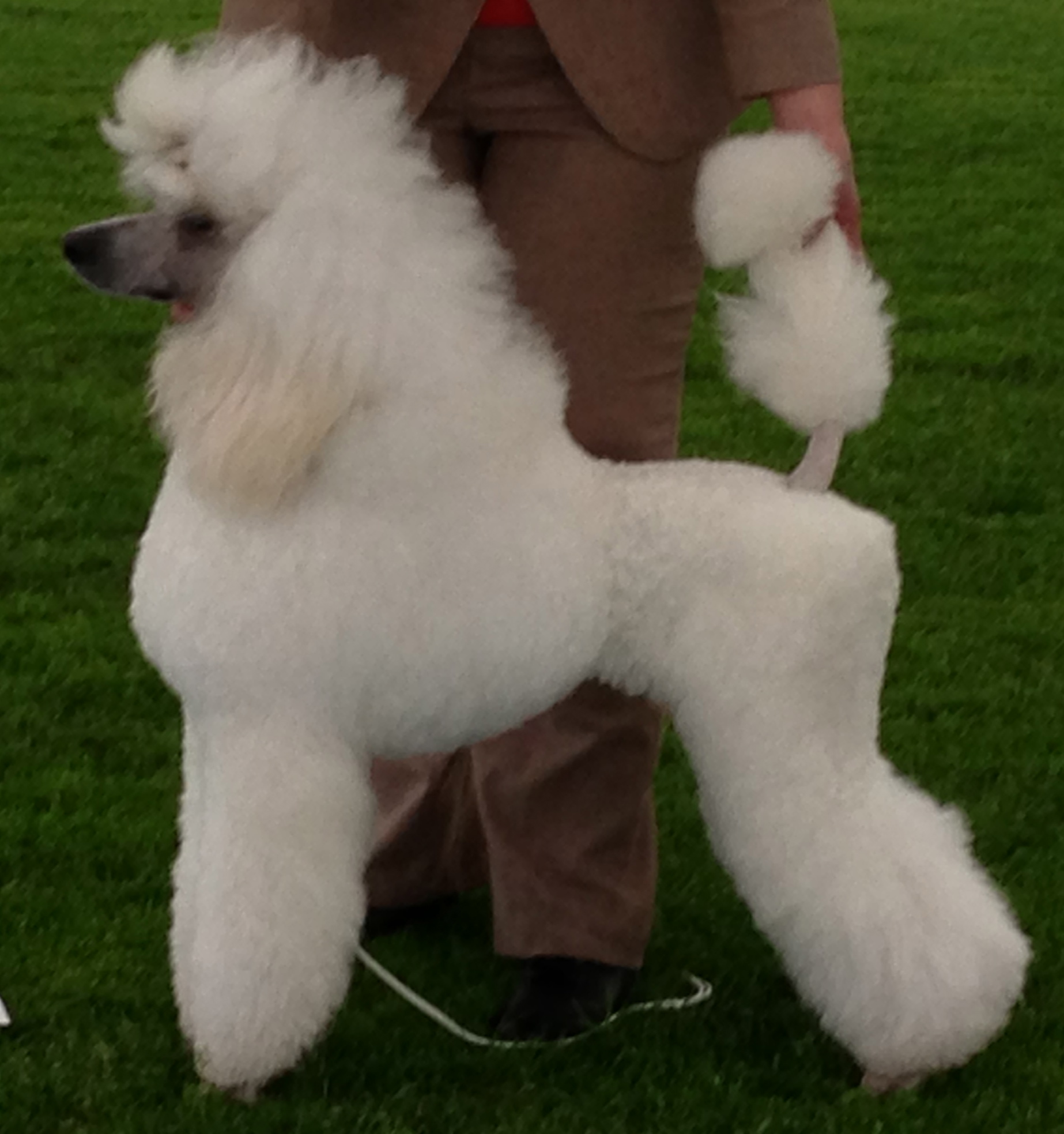 White Standard poodle in show trim